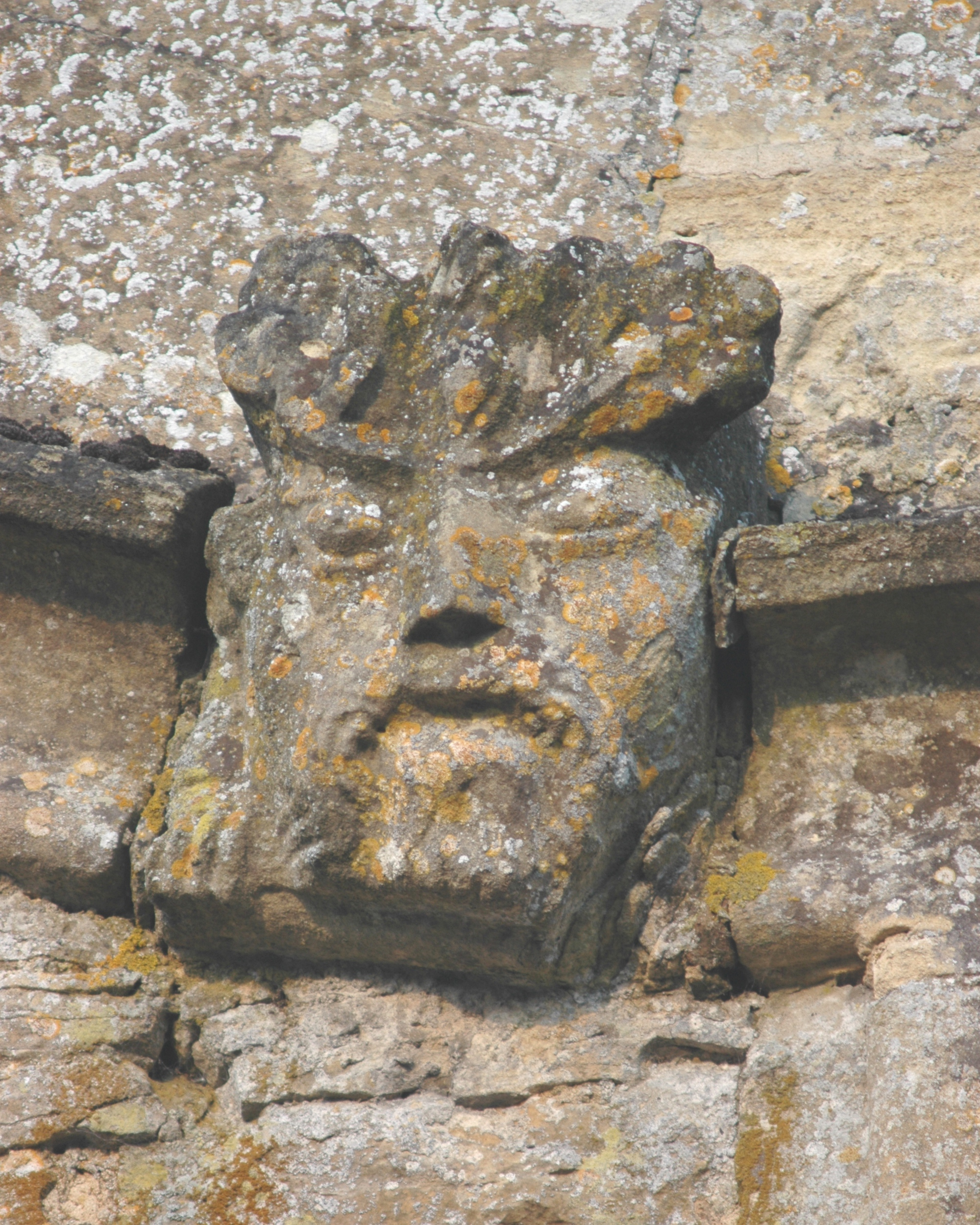 Church of England parish church of St Kenelm, Enstone, Oxfordshire: grotesque on the outside of the church.